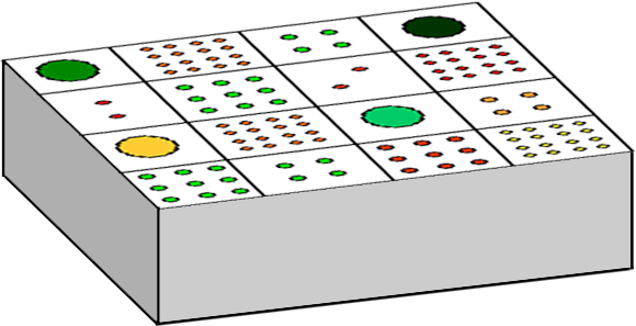 Basic 4x4, 16-unit "square foot garden.", in 3D